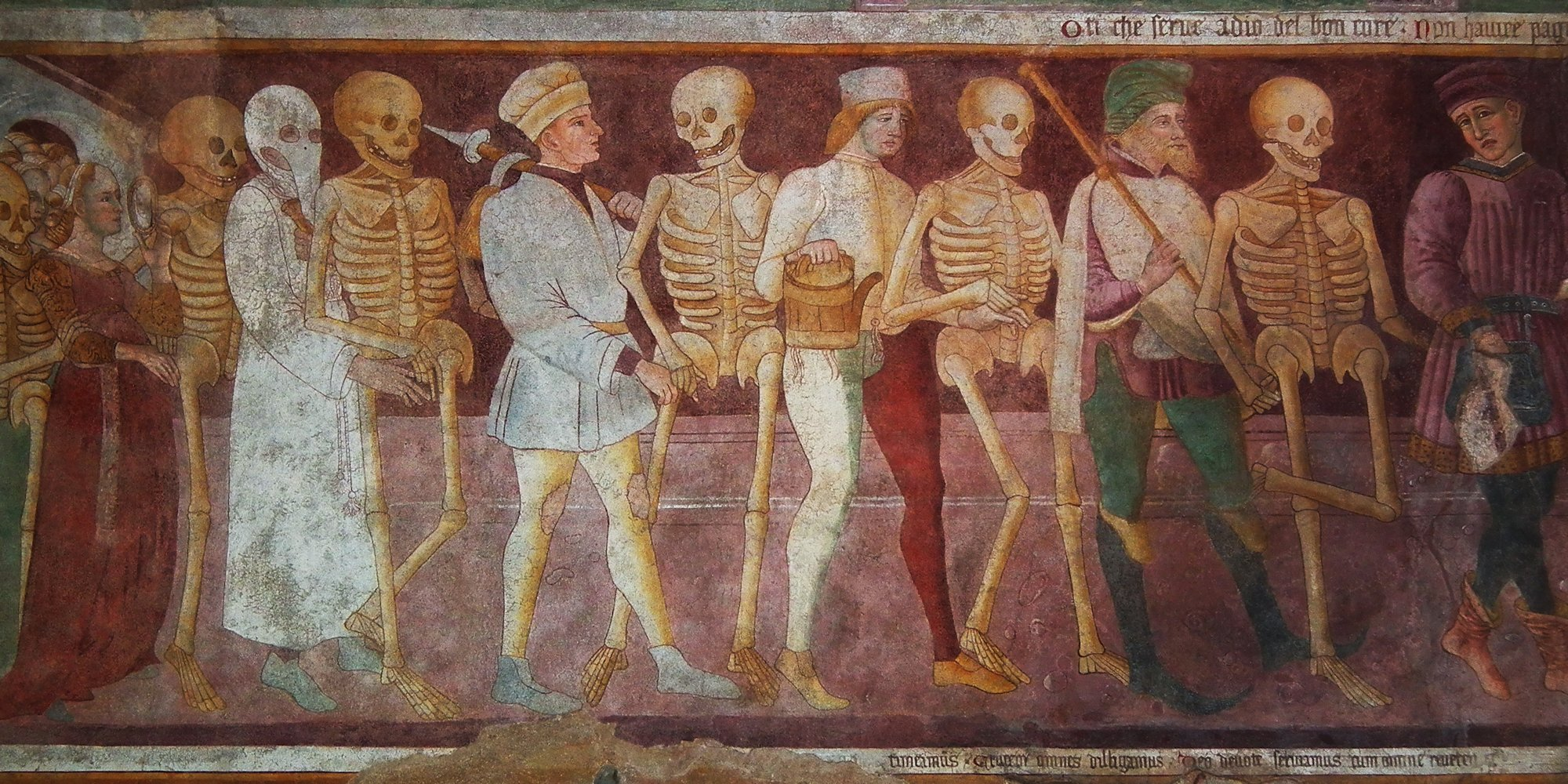 Oratorio dei Disciplini Native nameOratorio dei DiscipliniLocationClusone, Lombardy, ItalyCoordinates45° 53′ 29.4″ N, 9° 56′ 54.3″ E Established1484Authority control : Q3884417 institution QS:P195,Q3884417